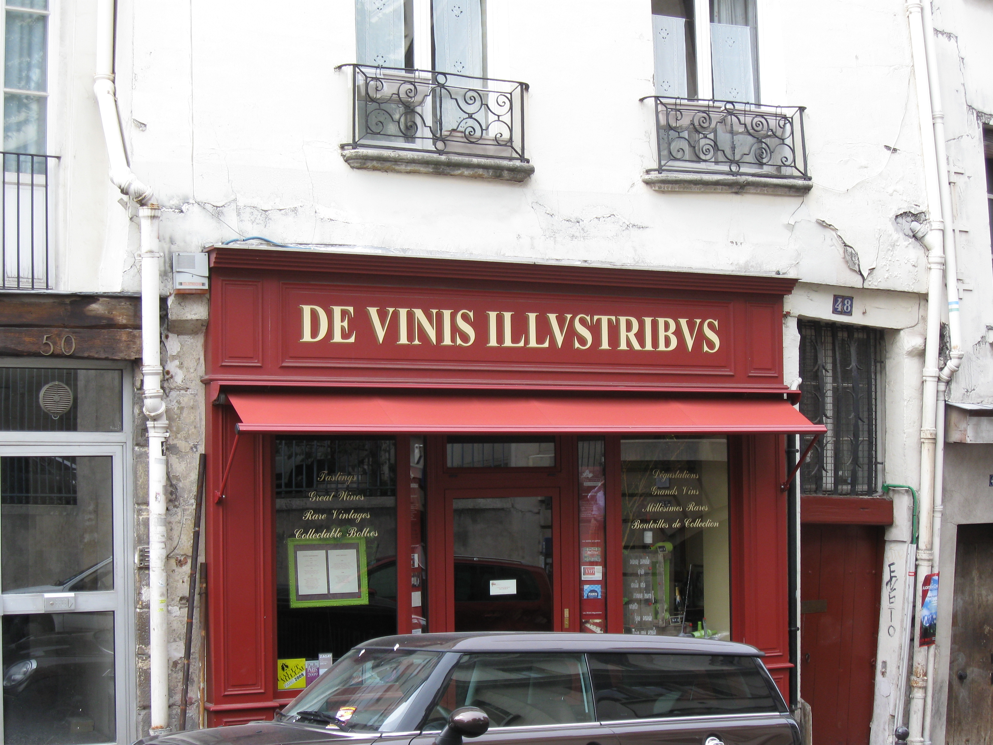 Sign in Latin, near the Ecole Polytechnique, 25 August 2010